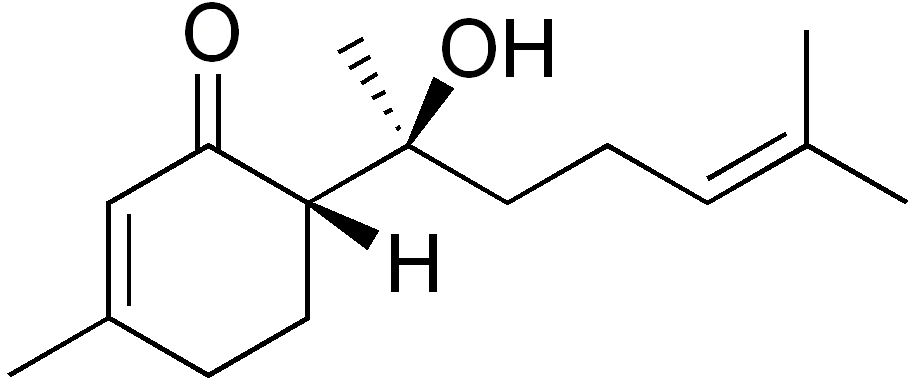 chemical structure of hernandulcin